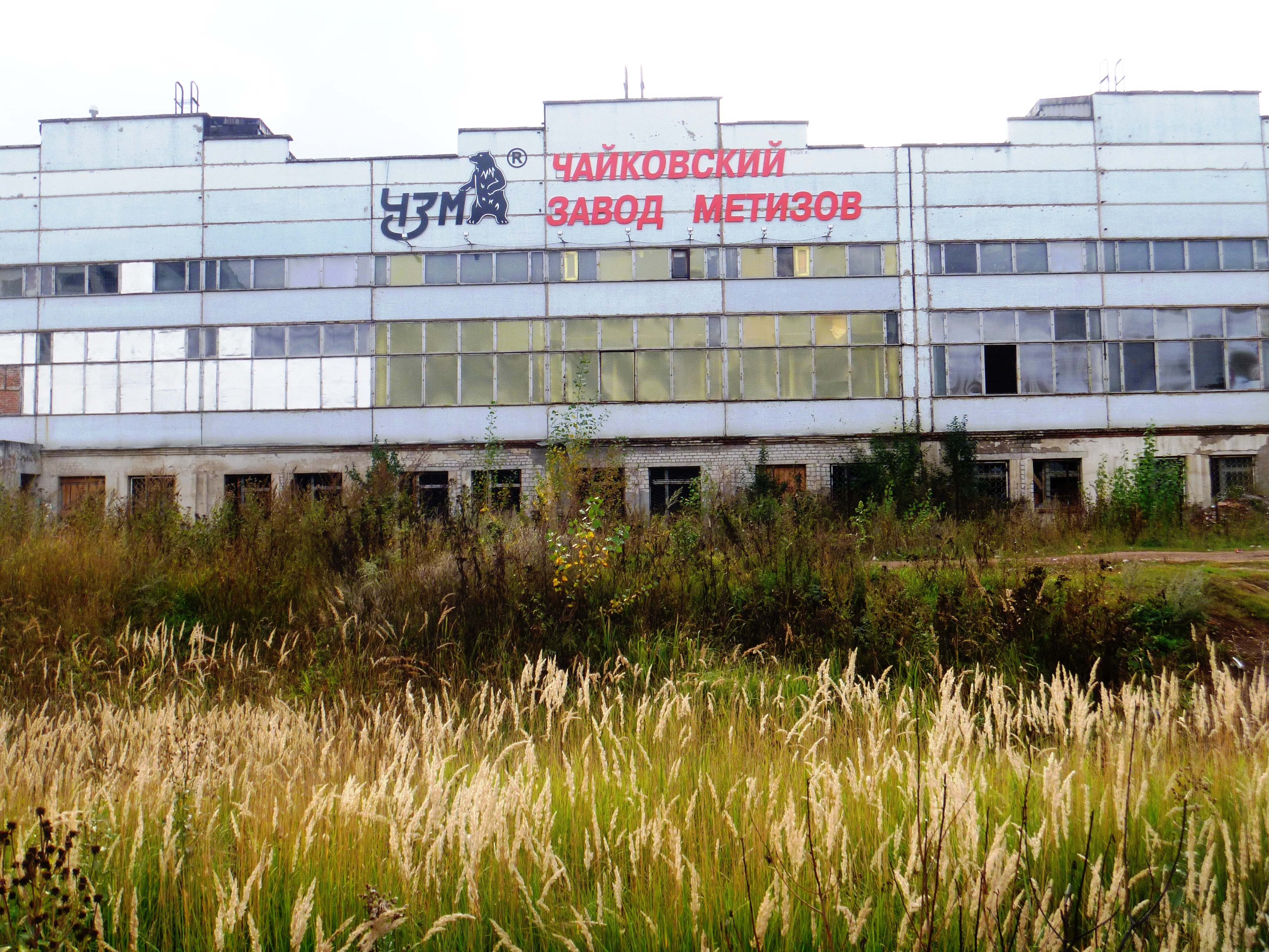 Perm Region